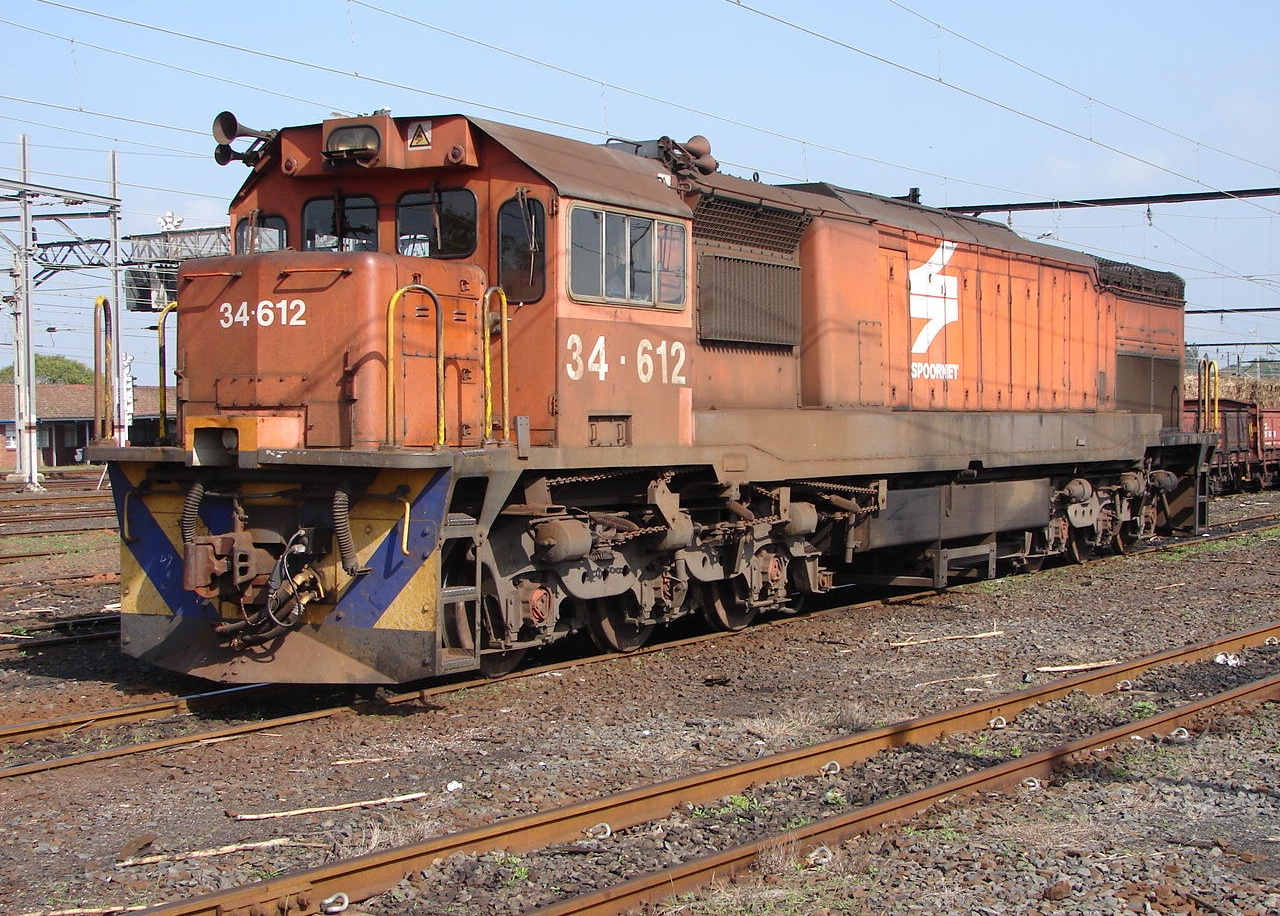 South African Class 34-600 34-612 Builder's Number: EMD 101-012 Type: EMD GT26MC Location: Empangeni, Kwa-Zulu Natal